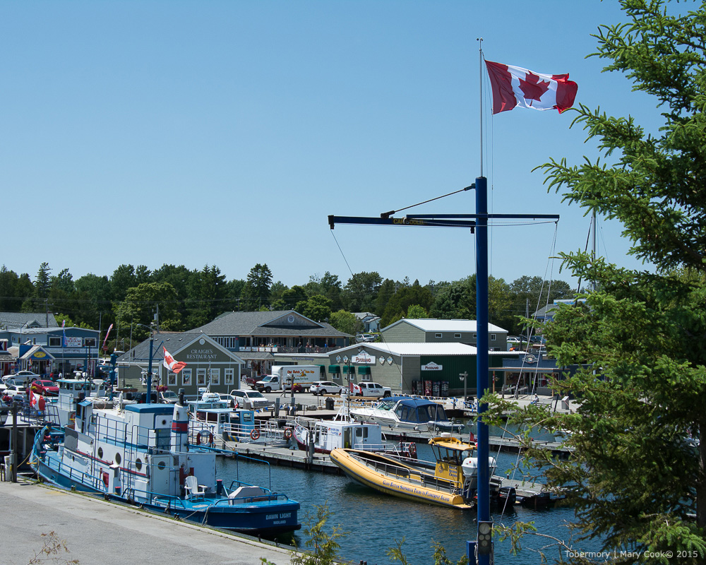 Little Tub Harbour, Tobermory